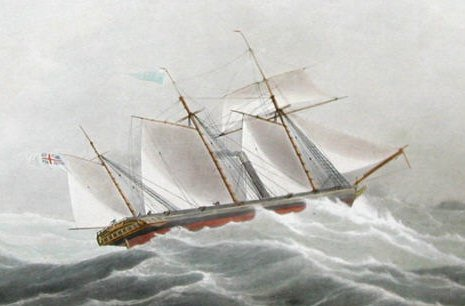 The screw steamer SS Archimedes at sea. Image cropped for this upload.